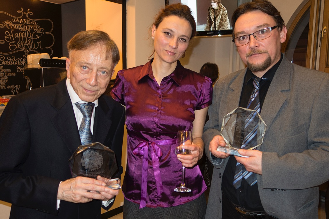 The prize winners of the second prize of Mária Szepes: Tamás Vásáry, pianist, conductor; Katalin Fürjes and Tamás Paulinyi are the founders of the free university SZINTÉZIS